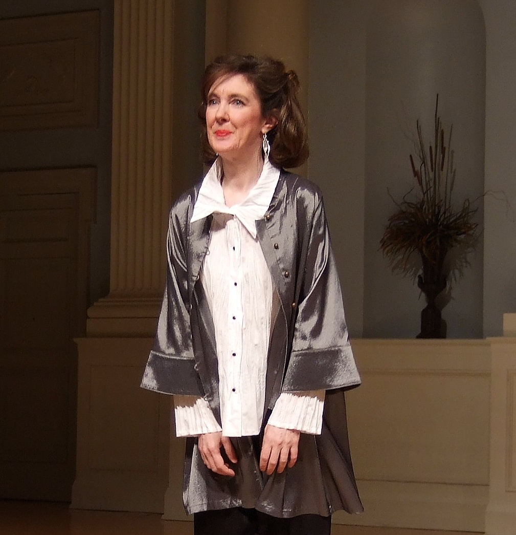 Anne-Marie McDermott performing at Brock Recital Hall in 2011